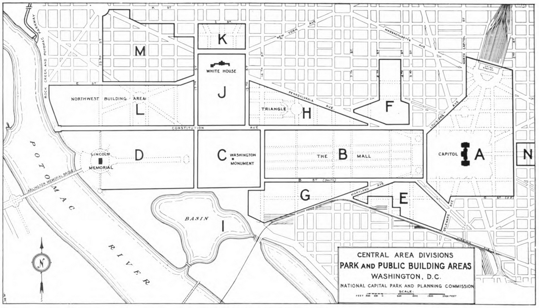 Map showing the National Mall and surrounding streets in downtown Washington, D.C., in the United States. The map shows the various planning zones used by the National Capital Park and Planning Commission. Note that South B Street (the future Independence Avenue SW) does not extend yet past 15th Street SW.